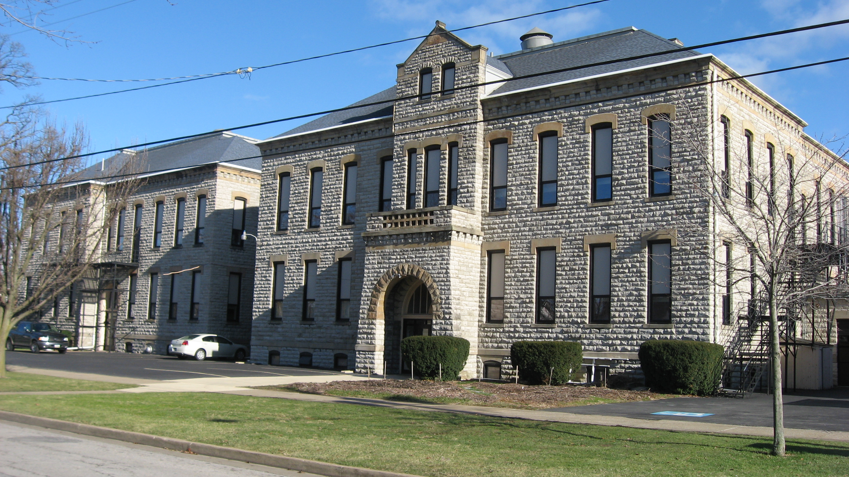 Western and southern sides of the Osborne School, located at 922 W. Osborne Street in Sandusky, Ohio, United States. Built in 1890, it is listed on the National Register of Historic Places.